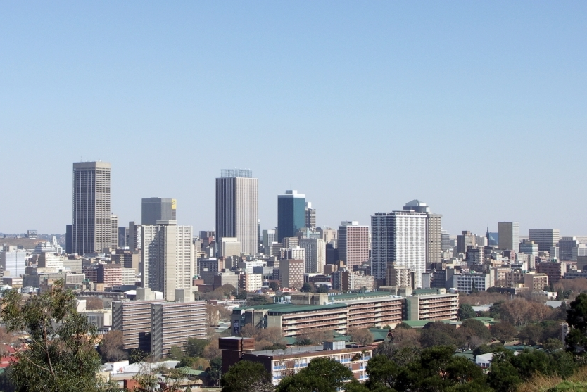 Johannesburg Skyline, South Africa